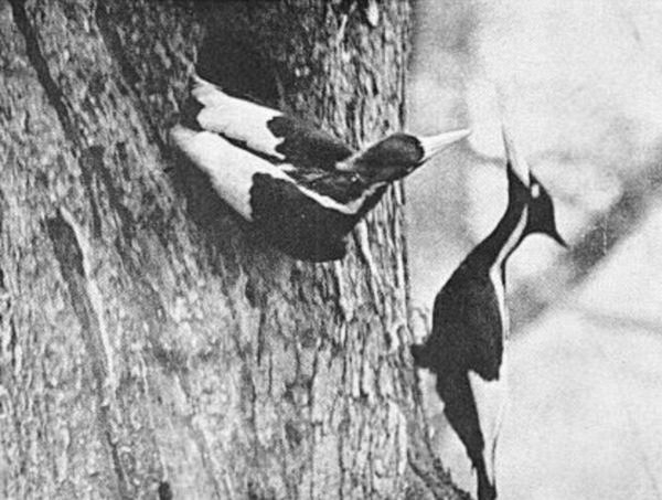 The male Ivory-Bill leaves as the female returns. Photo taken in Singer Tract, Louisiana by Arthur A. Allen (April 1935). From Recent observations of the Ivory-Billed Woodpecker (Auk) Volume 54, Number 2, April, 1937.